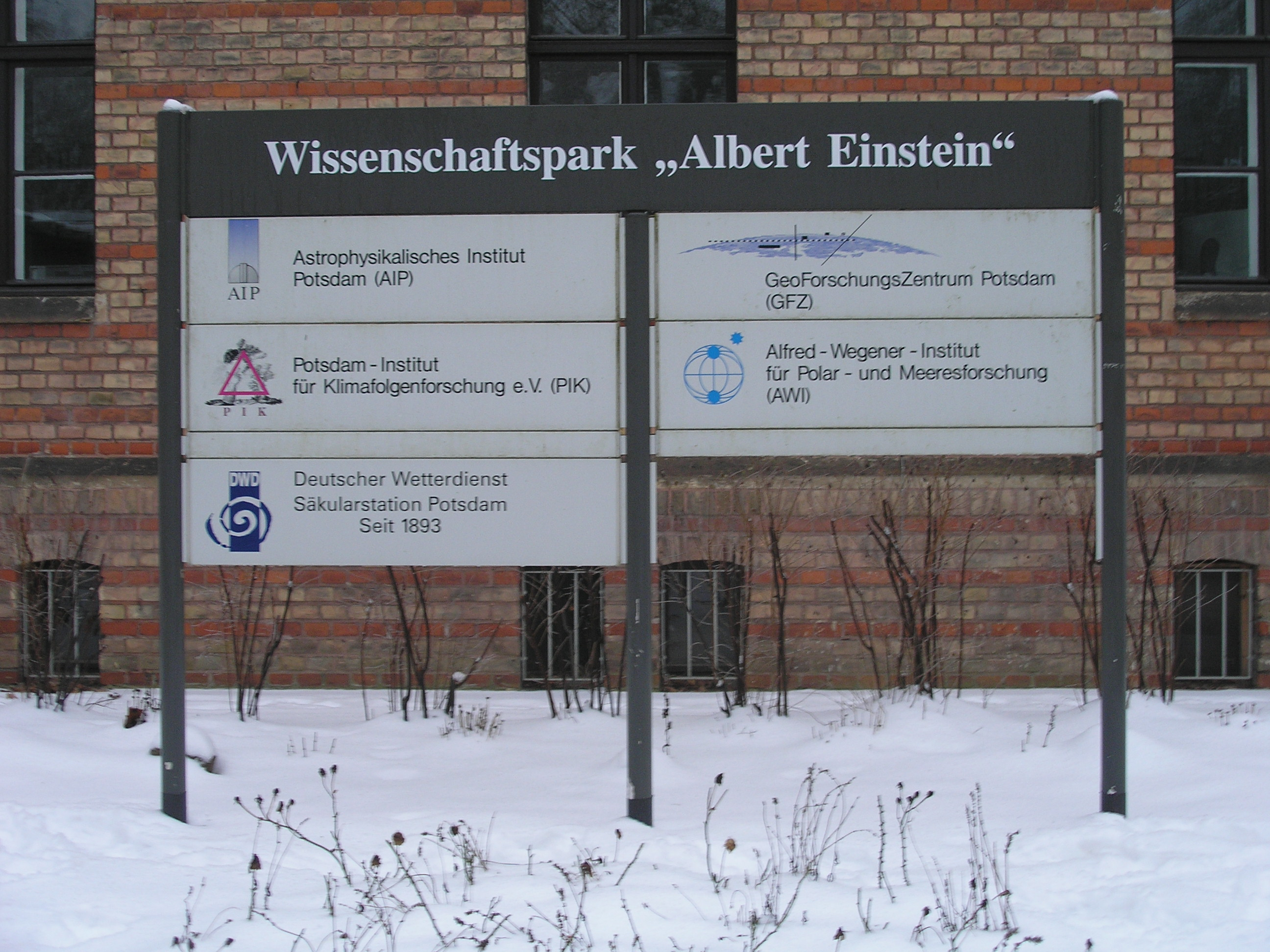 The signboard of the Wissenschaftspark "Albert Einstein" in Potsdam. Self-taken.